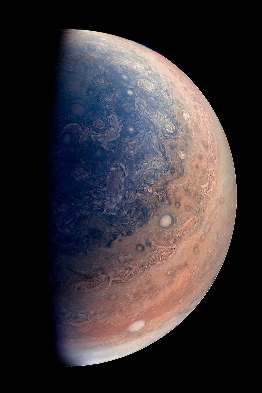 This enhanced color view of Jupiter’s south pole was created by citizen scientist Gabriel Fiset using data from the JunoCam instrument on NASA’s Juno spacecraft. Oval storms dot the cloudscape. Approaching the pole, the organized turbulence of Jupiter’s belts and zones transitions into clusters of unorganized filamentary structures, streams of air that resemble giant tangled strings.